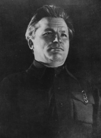 Soviet Politician Sergey Kirov